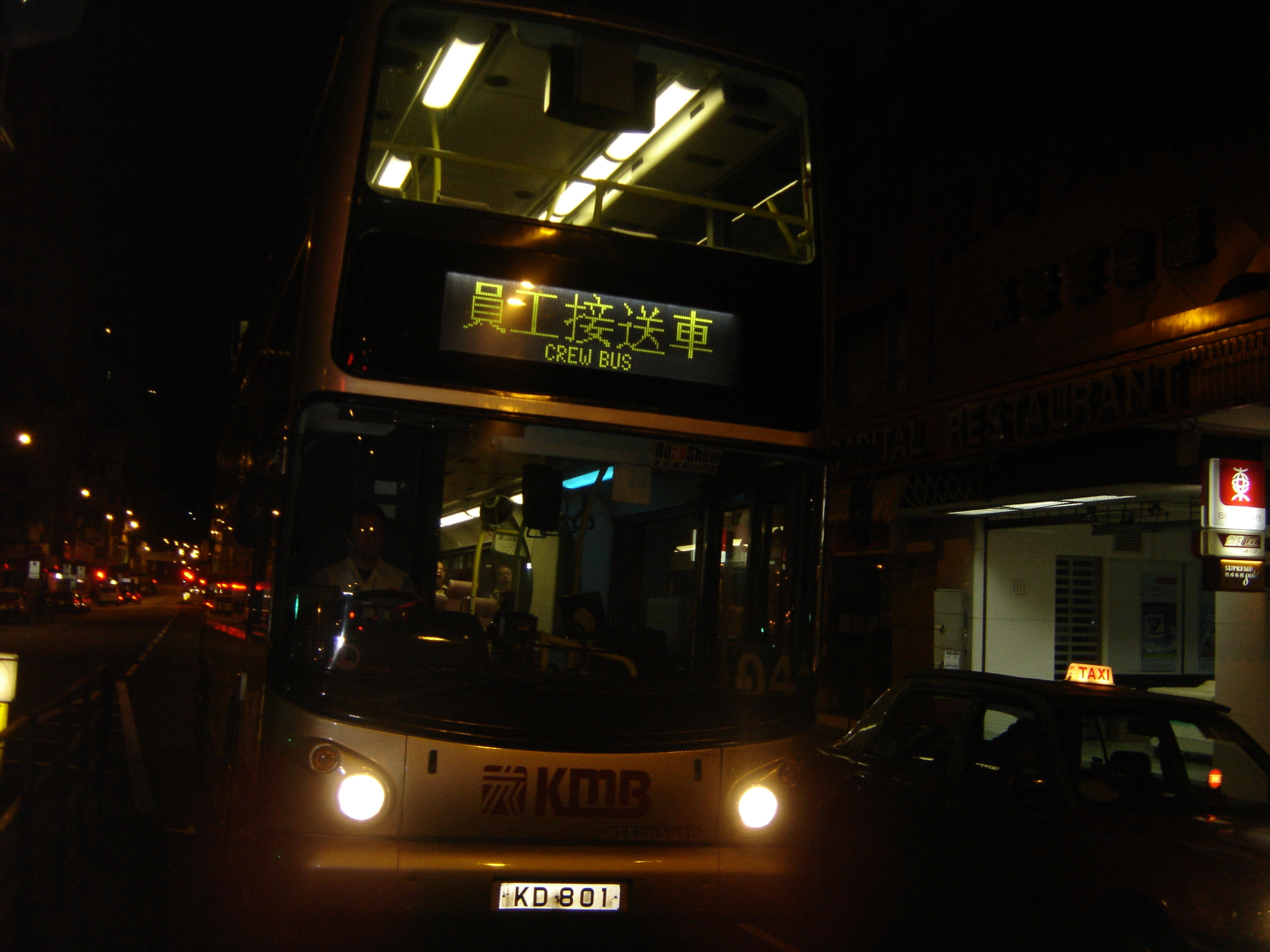 Crew bus of KMB 中文（香港）: 九巴的員工接送車。